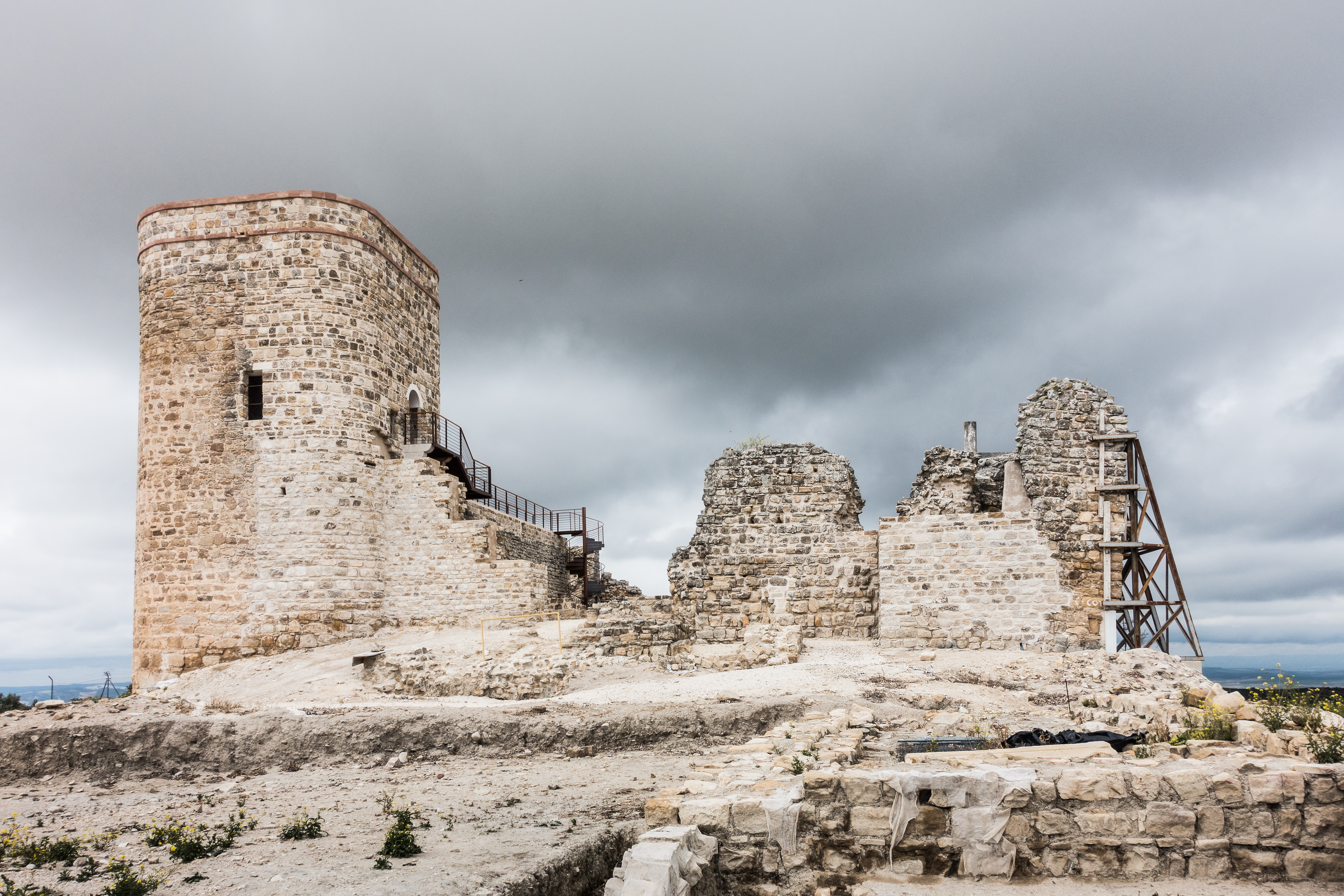 Torreparedones Archaeological Park in Baena, Cordoba, Spain. The Castle in Castro el Viejo.